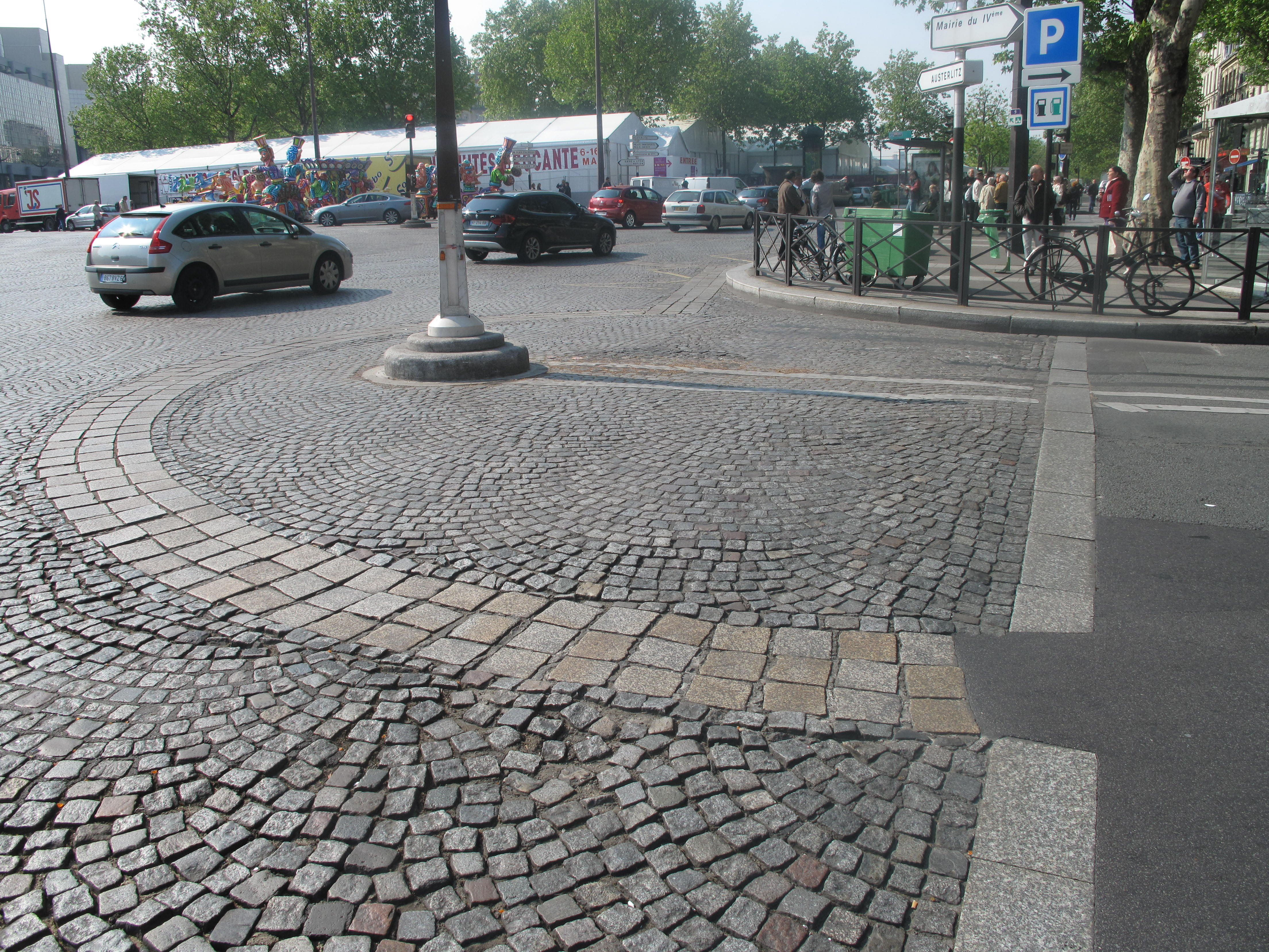 Drawings of the wall of the fortress of la Bastille on the paving setts of the place de la Bastille, Paris 4th arr.